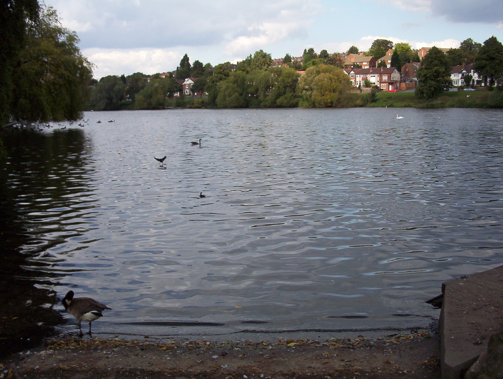 Brookvale Park Lake is an erstwhile drinking water reservoir in Birmingham. The brooks around the lake are natural but the lake was built in the 19th Century